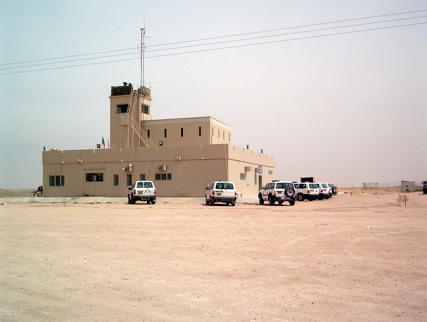 A Kuwaiti Police Station located near the Iraqi border.